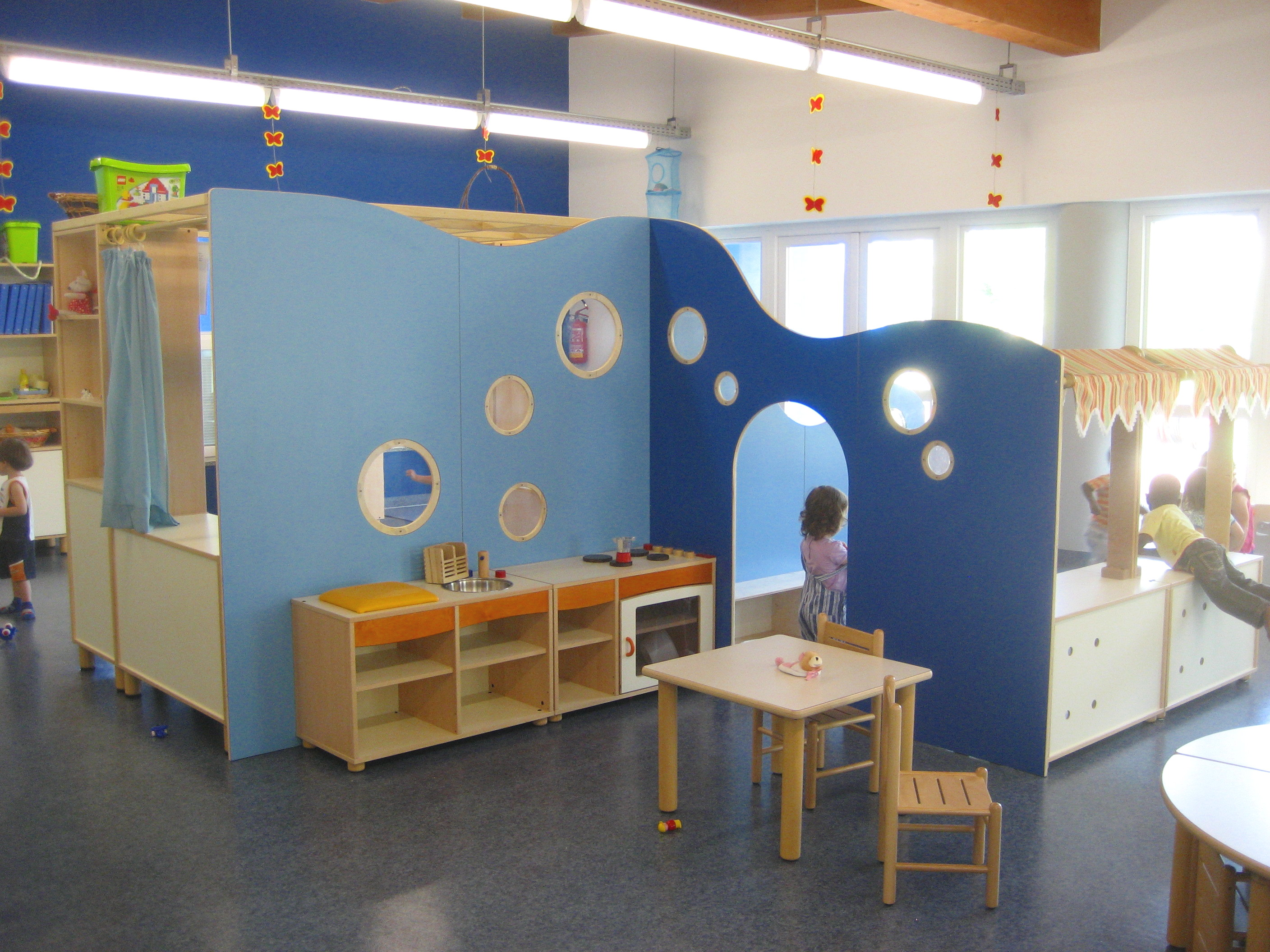 The blue classroom in the new "Cucciolo" nursery-school in Fontevivo (Parma, Italy). Children care architecture.